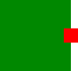 Result of a simple example of using anchors in QML.